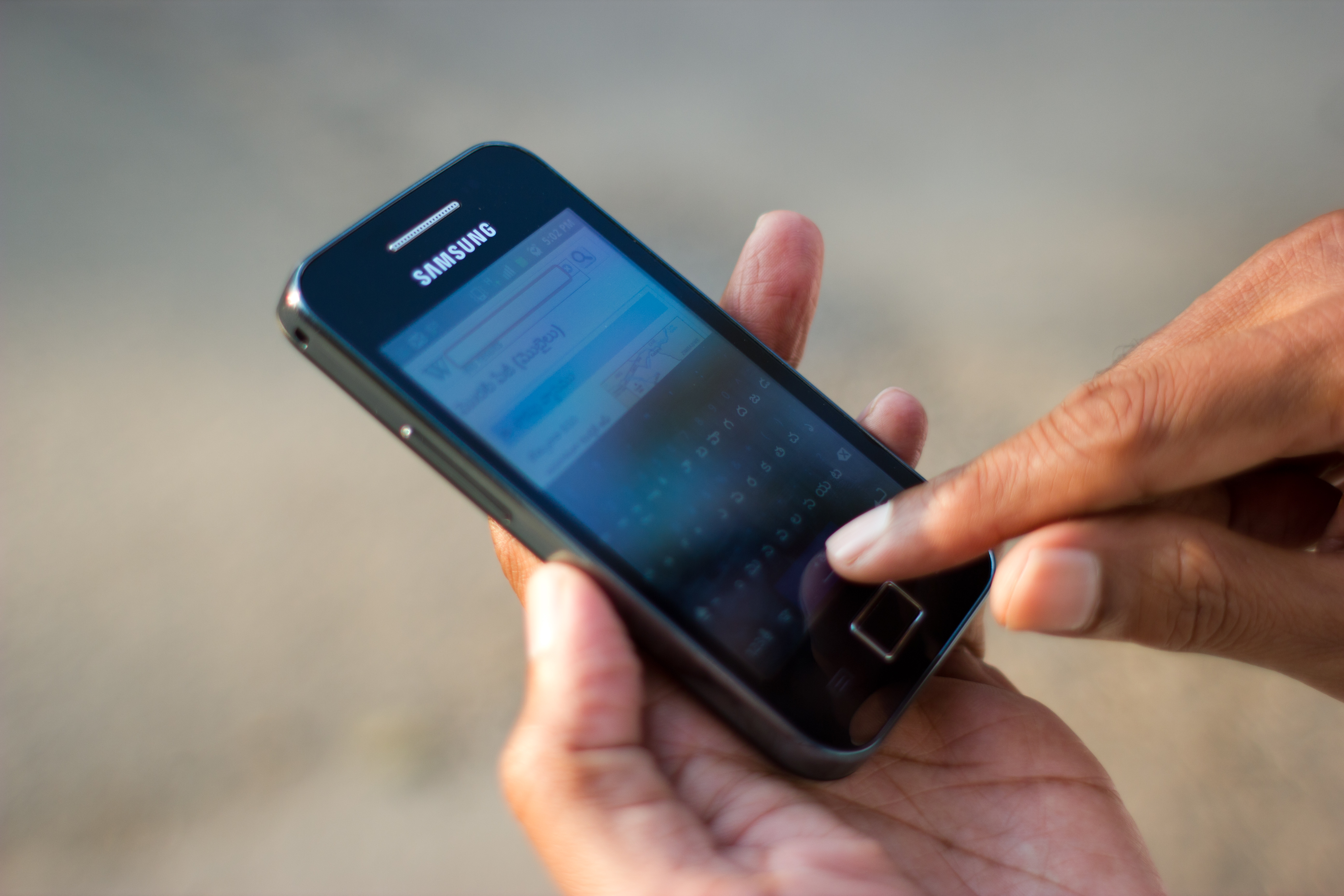 India Cellphone and Tech Images November 2011